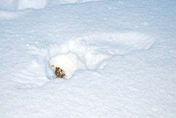 A Black Grouse burrow under the snow.